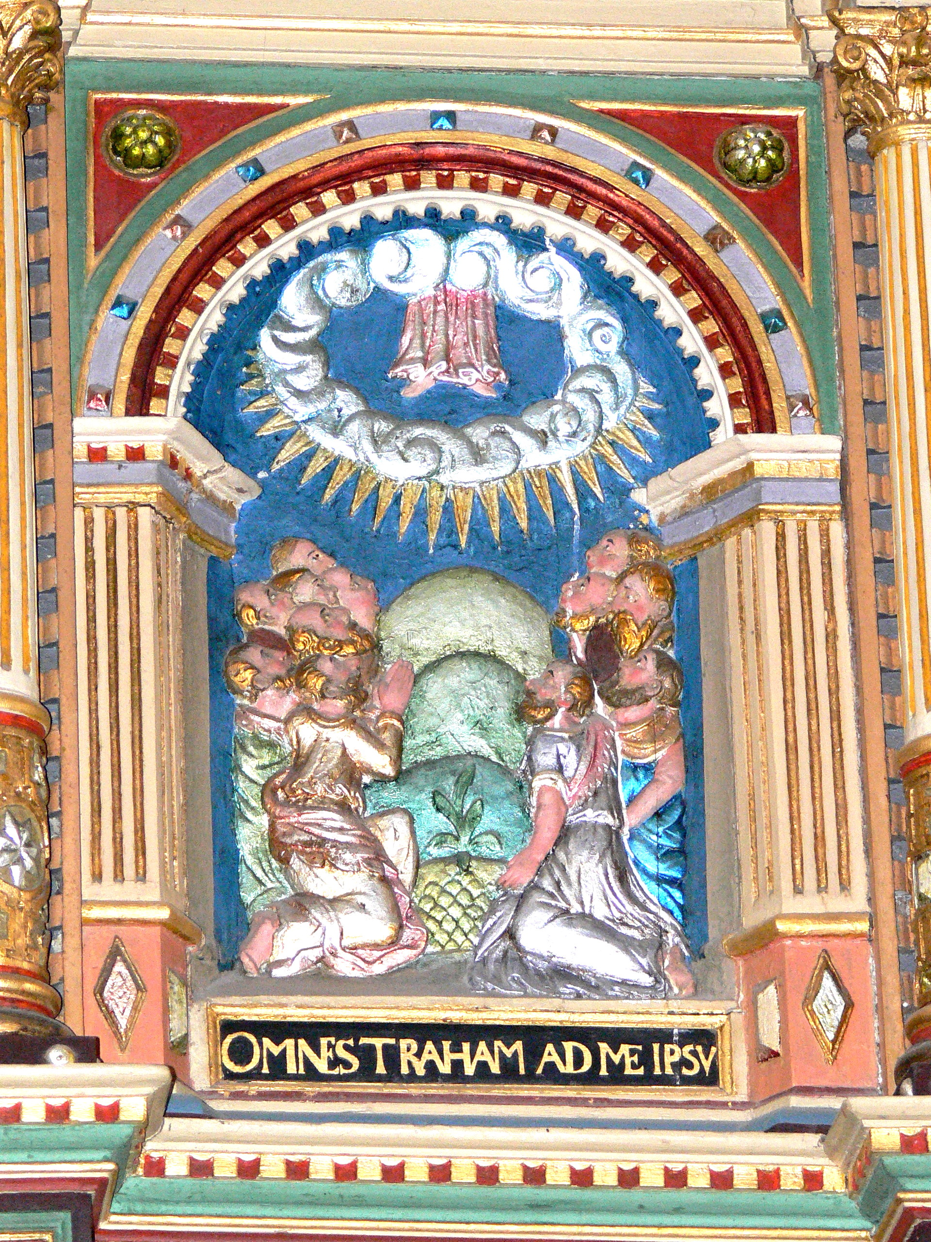 Ribe Cathedral. Pulpit ( 1597 ): Ascension of Christ with the latin inscription "Omnes traham ad me ipsum" ( All people I will draw to myself )